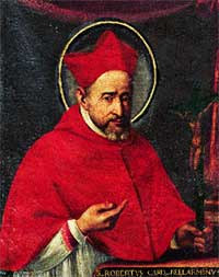 Saint Robert Bellarmine, Jesuit and Doctor of the Church Born 4 October, 1542, Montepulciano, Italy Died 17 September, 1621, Rome, Italy Venerated in Catholicism Beatified 13 May 1923 by Pope Pius XI Canonized 29 June 1930 by Pope Pius XI